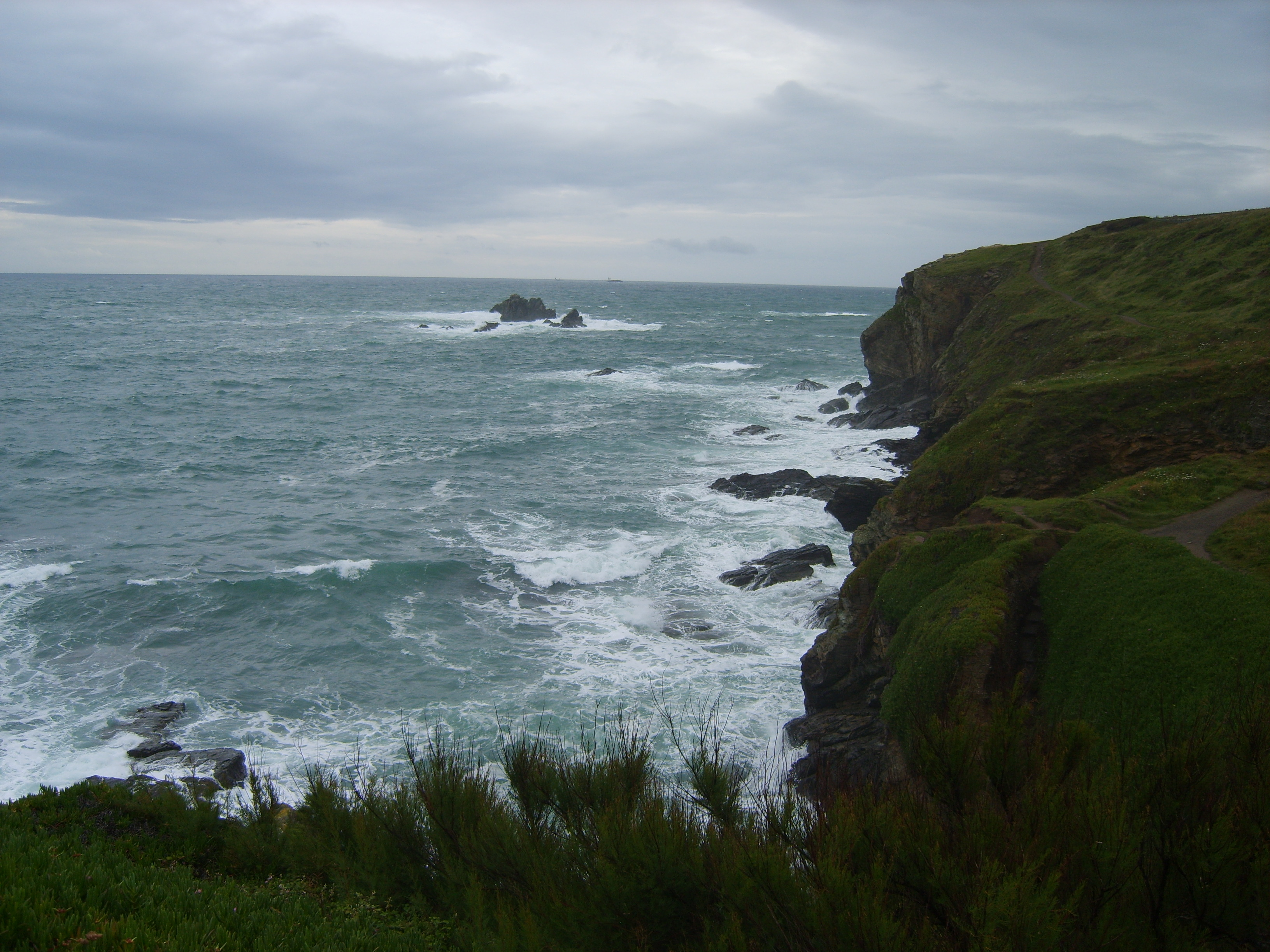 A view along the coast at Lizard Point, Cornwall